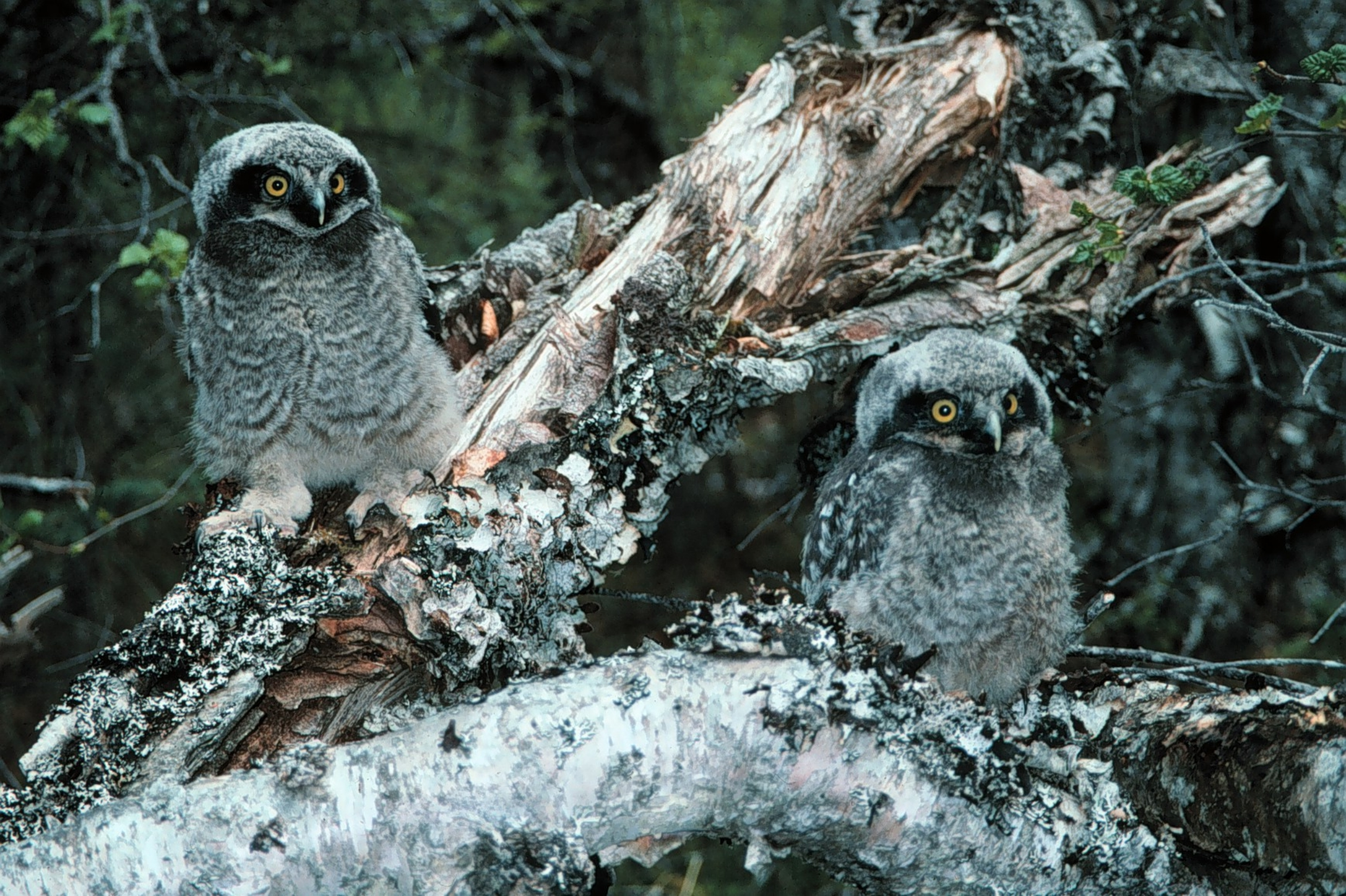 Northern Hawk Owl Surnia ulula, chicks, Togiak NWR, Alaska